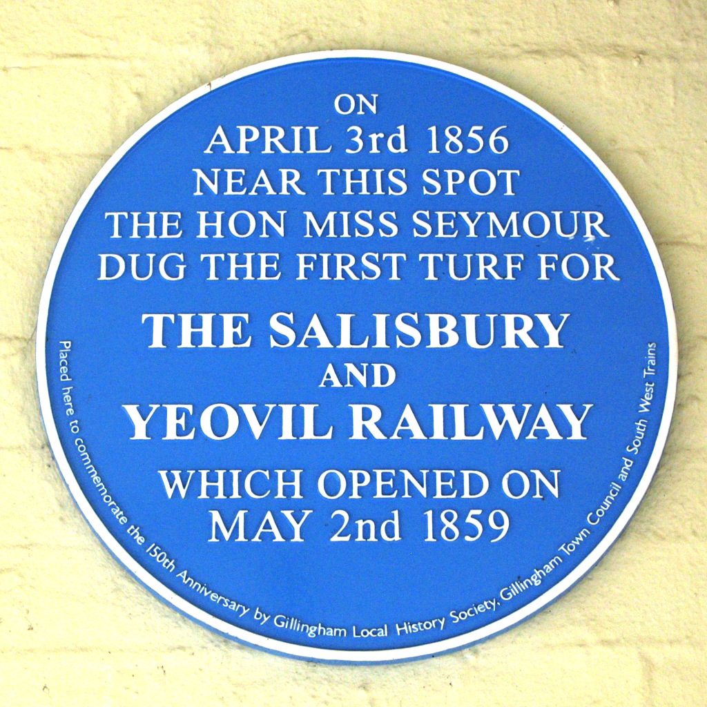 A plaque at Gillingham railway station in Dorset, commemorating the start of construction on 3 April 1856 of the Salisbury and Yeovil Railway.